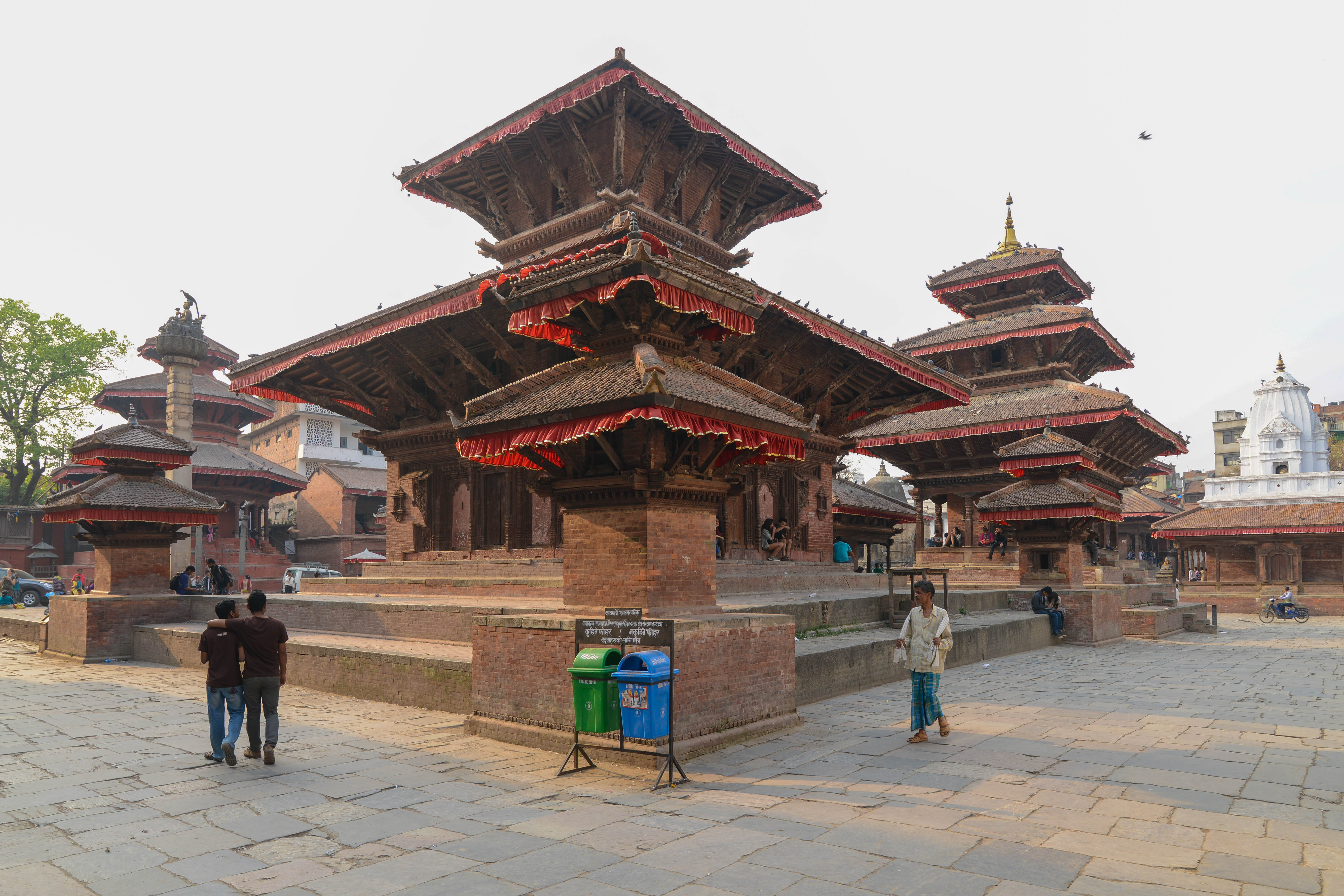 Chyasin Dega (left behind Pratapamalla column), Jagannath temple (middle), Vishnu temple (middle right), Kageshwor temple (right) at Durbar Square in Kathmandu in Nepal